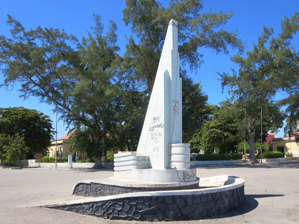 The monument to 17th century Portuguese Captain-General Manuel Cerveira Pereira in Benguela, Angola